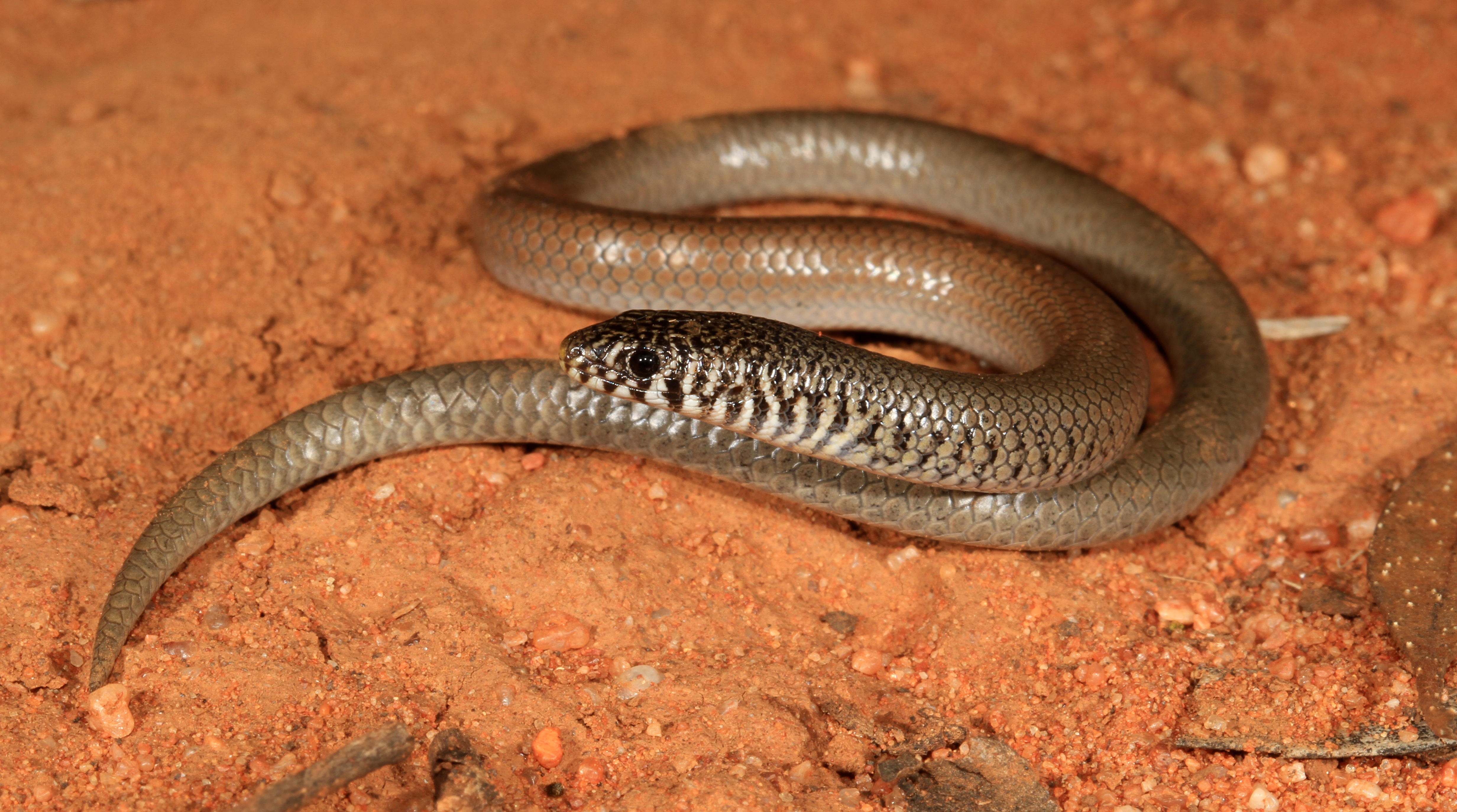 Murray Mallee, South Australia.